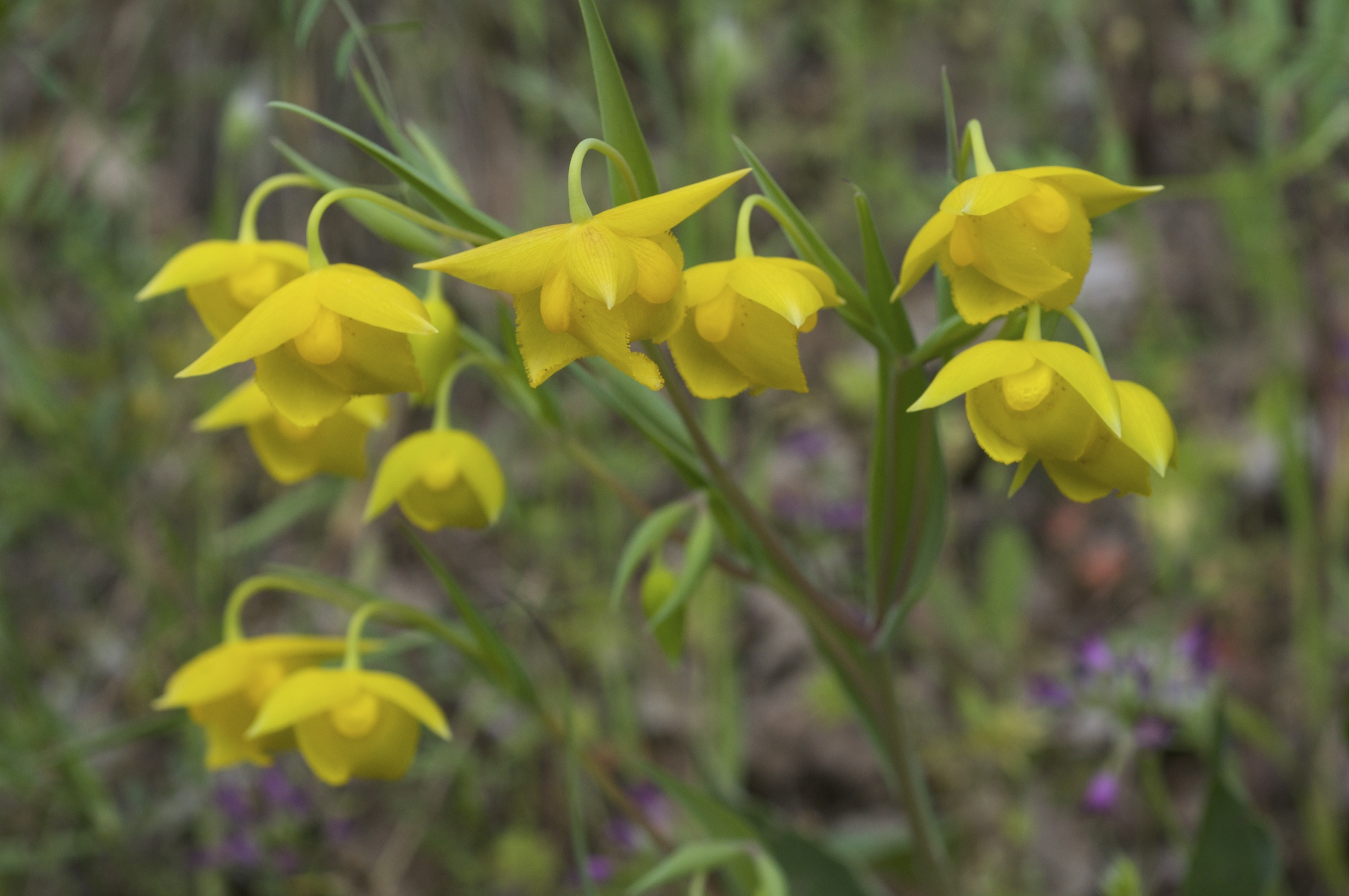 Species from California Common name: Diogene's Lantern Photographed along Covelo Road, Mendocino County, California